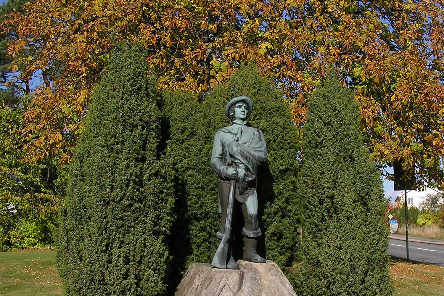 The "Snapphane" statue in Lönsboda village, Örkened county.